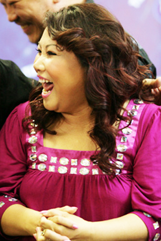 Siu Black judging the Vietnam Idol